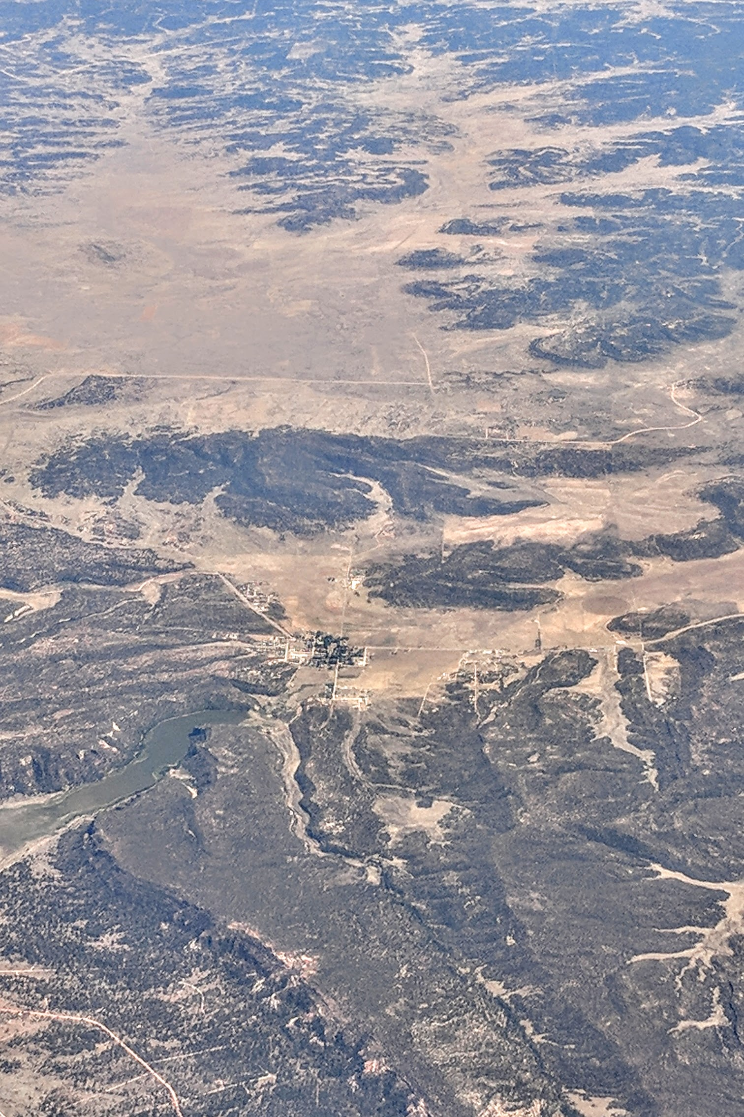 Aerial view of Ramah Reservoir and Ramah, New Mexico, and surroundings